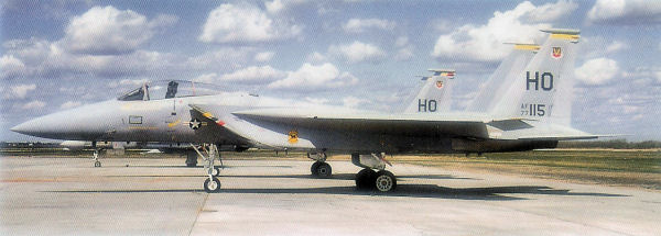 F-15A of the 49th TFW, Holloman Air Force Base New Mexico.